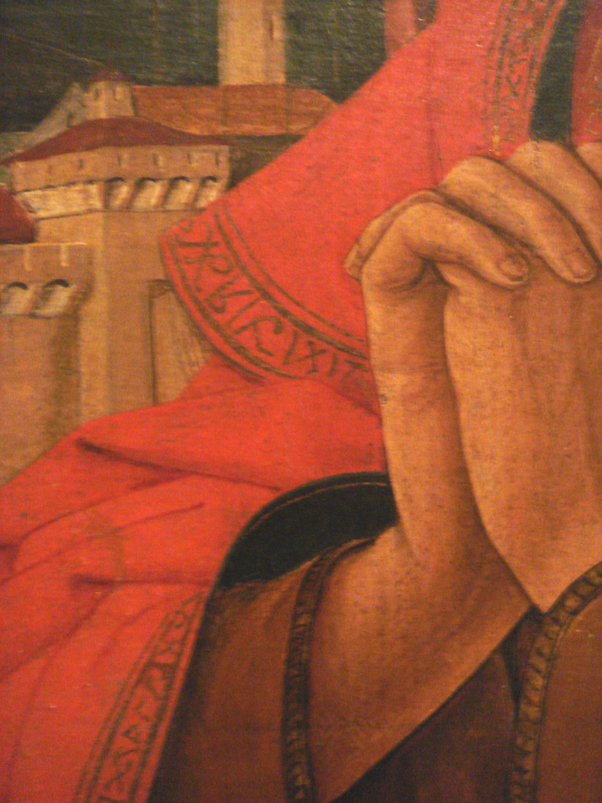 Saint_Jean_in_Crucifixion_Ferrare_Vicino_da_Ferrara_1469_1470_detail